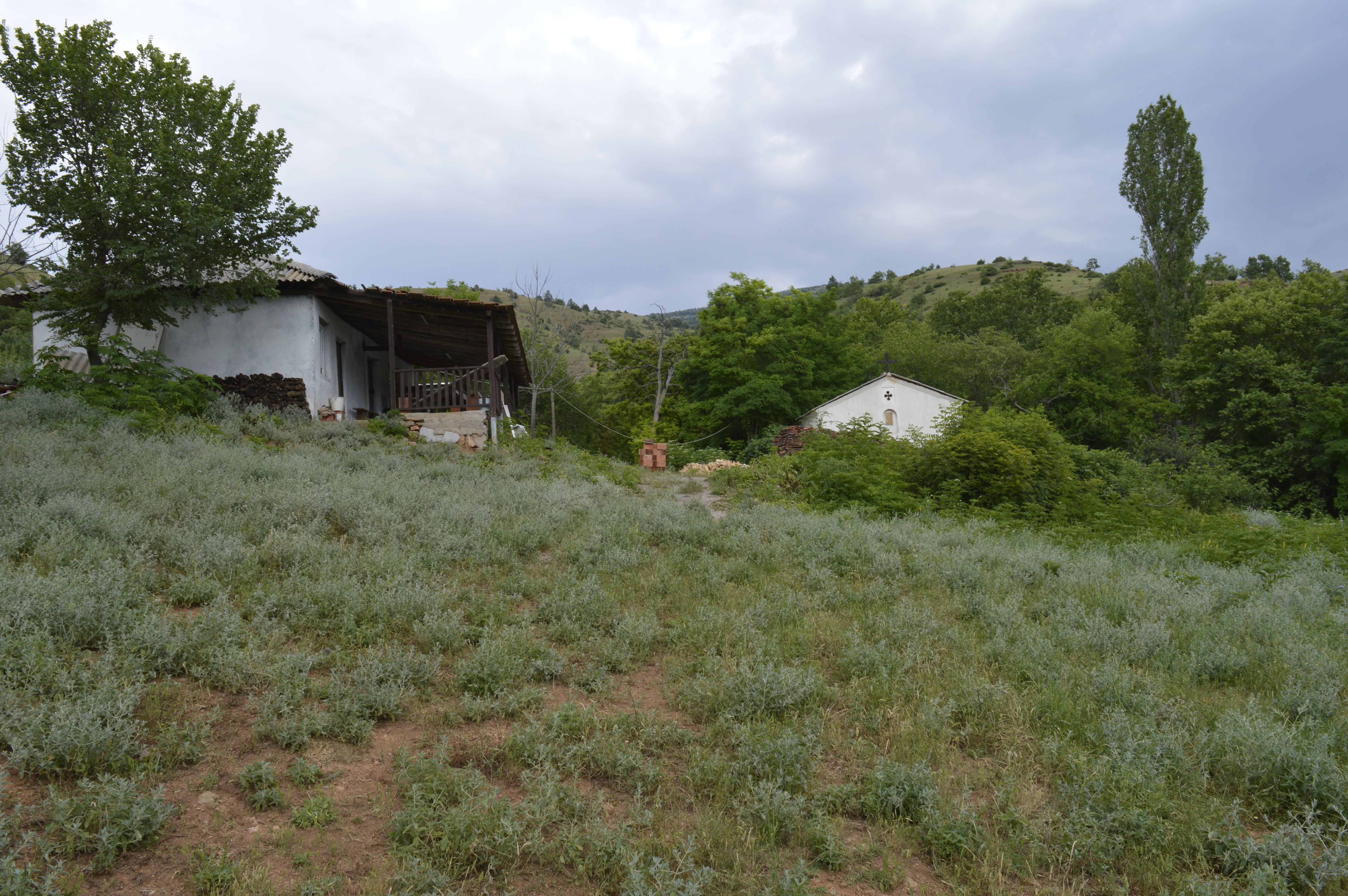 View of the Vojnica Monastery